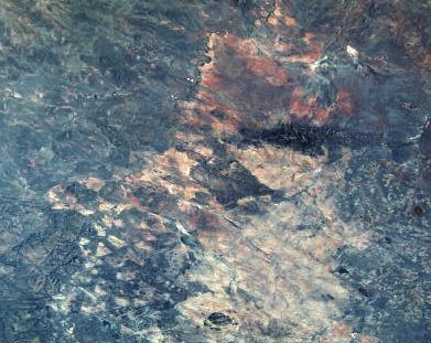 The Blouberg Range and the Magkabeng Plateau in Limpopo Province, South Africa